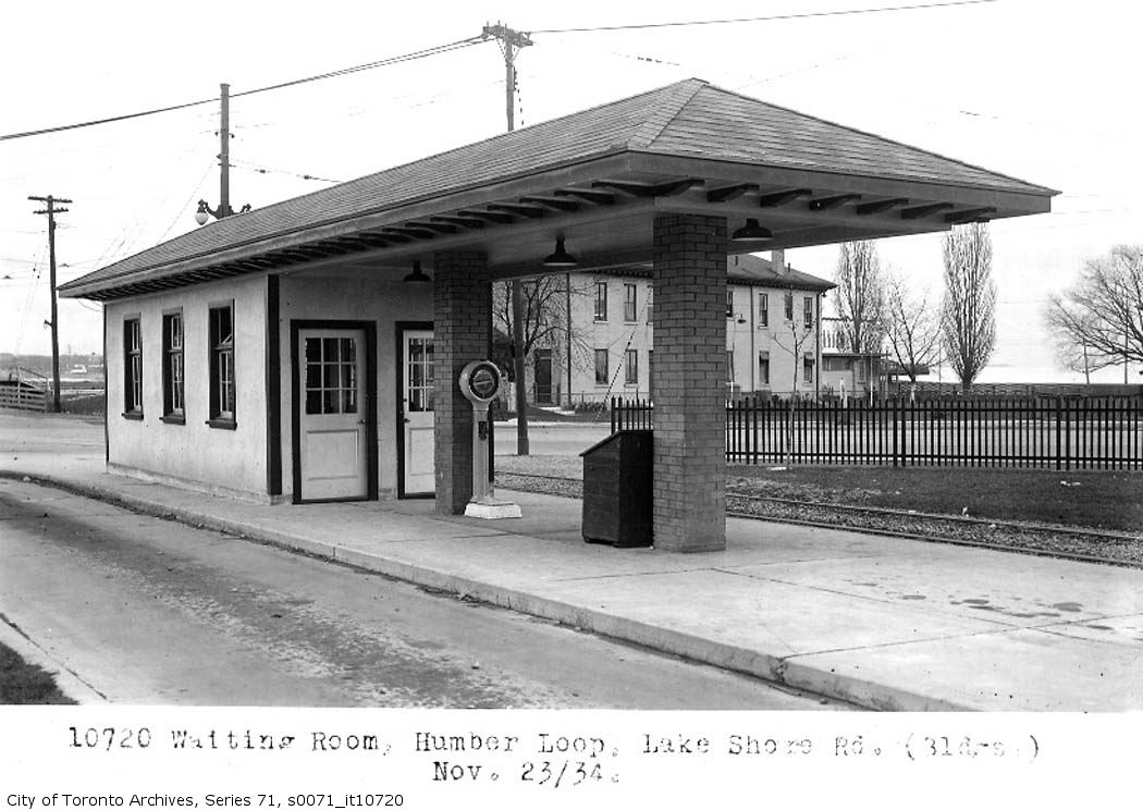 Waiting room, Humber Loop, Lake Shore Rd, (Buildings Department)